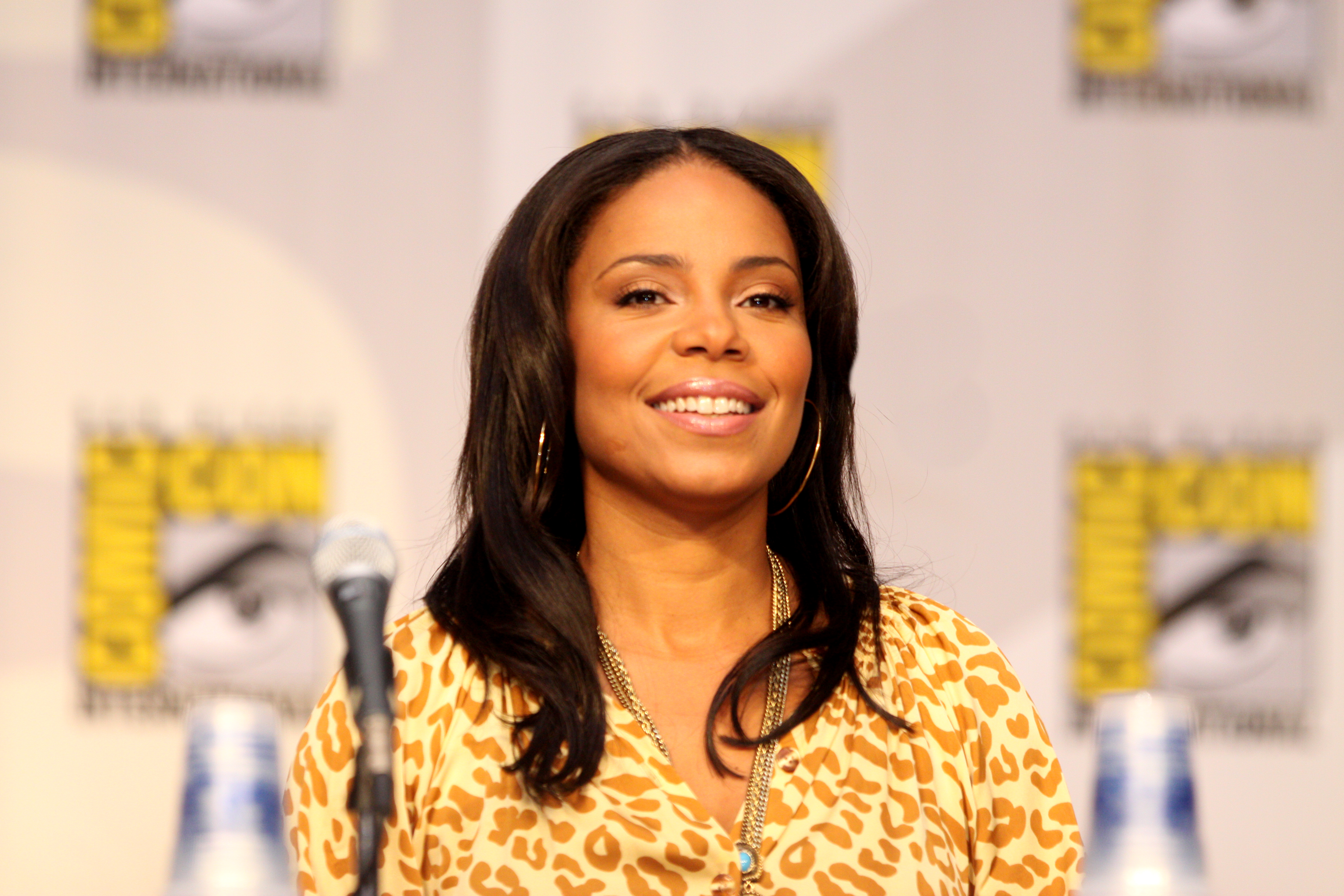 Actress Sanaa Lathan on The Cleveland Show panel at the 2010 San Diego Comic Con in San Diego, California.